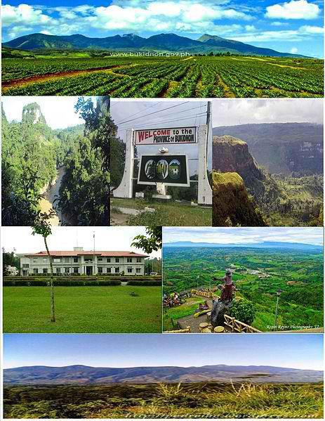 The natural and notable man made landmarks of the Province of Bukidnon.